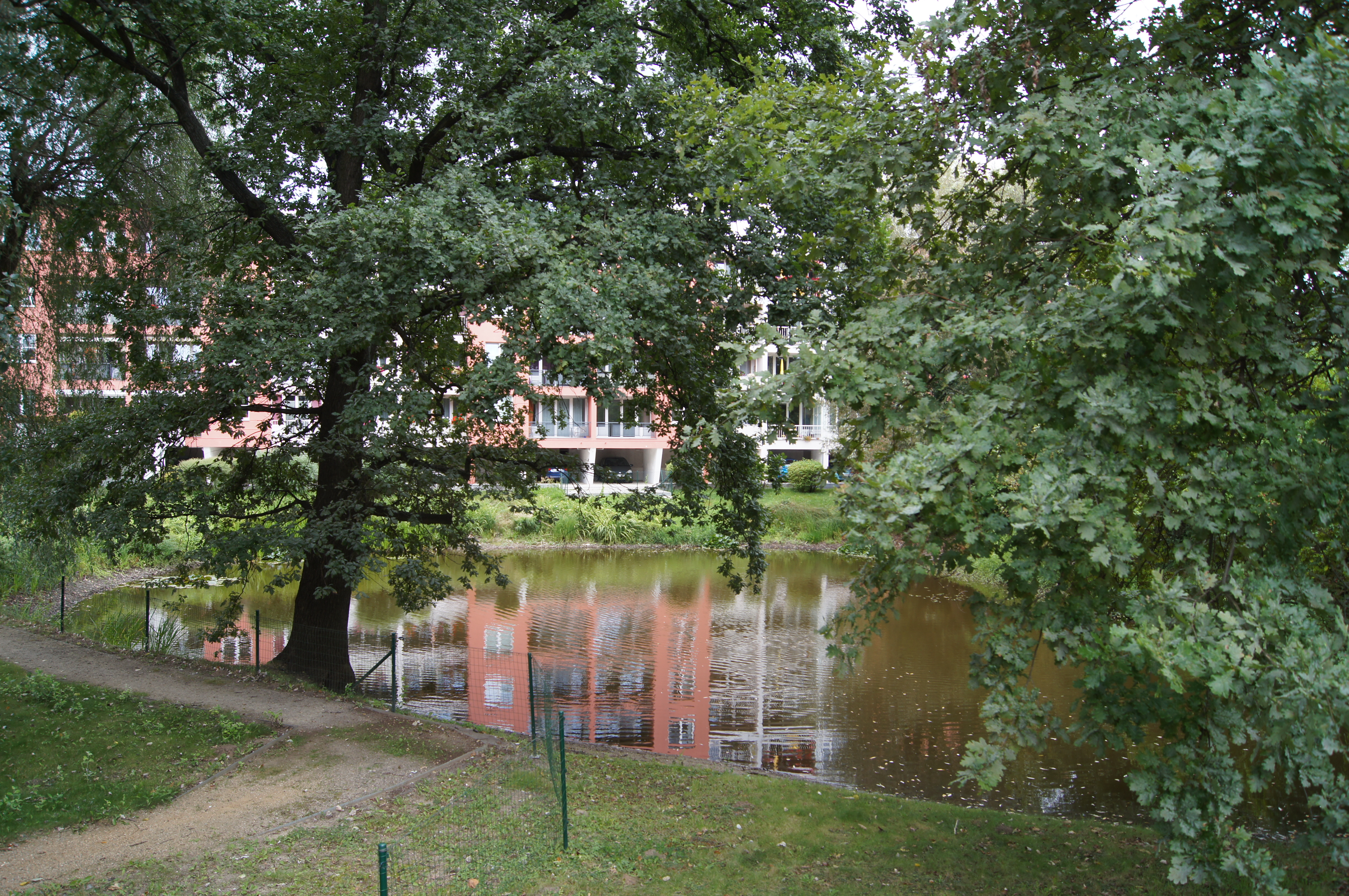 Pond Noacksteich in Frankfurt (Oder), Brandenburg, Germany